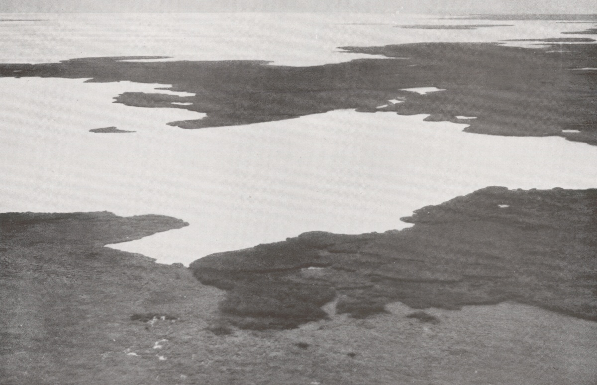 Lake Chad in December 1930. Air photo taken by Swiss pilot and photographer Walter Mittelholzer (1894-1937).